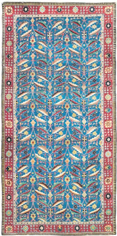 Carpet, sold for 7'200'000 € at christie's